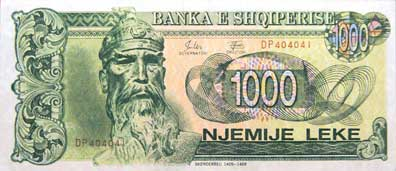 1000 lek